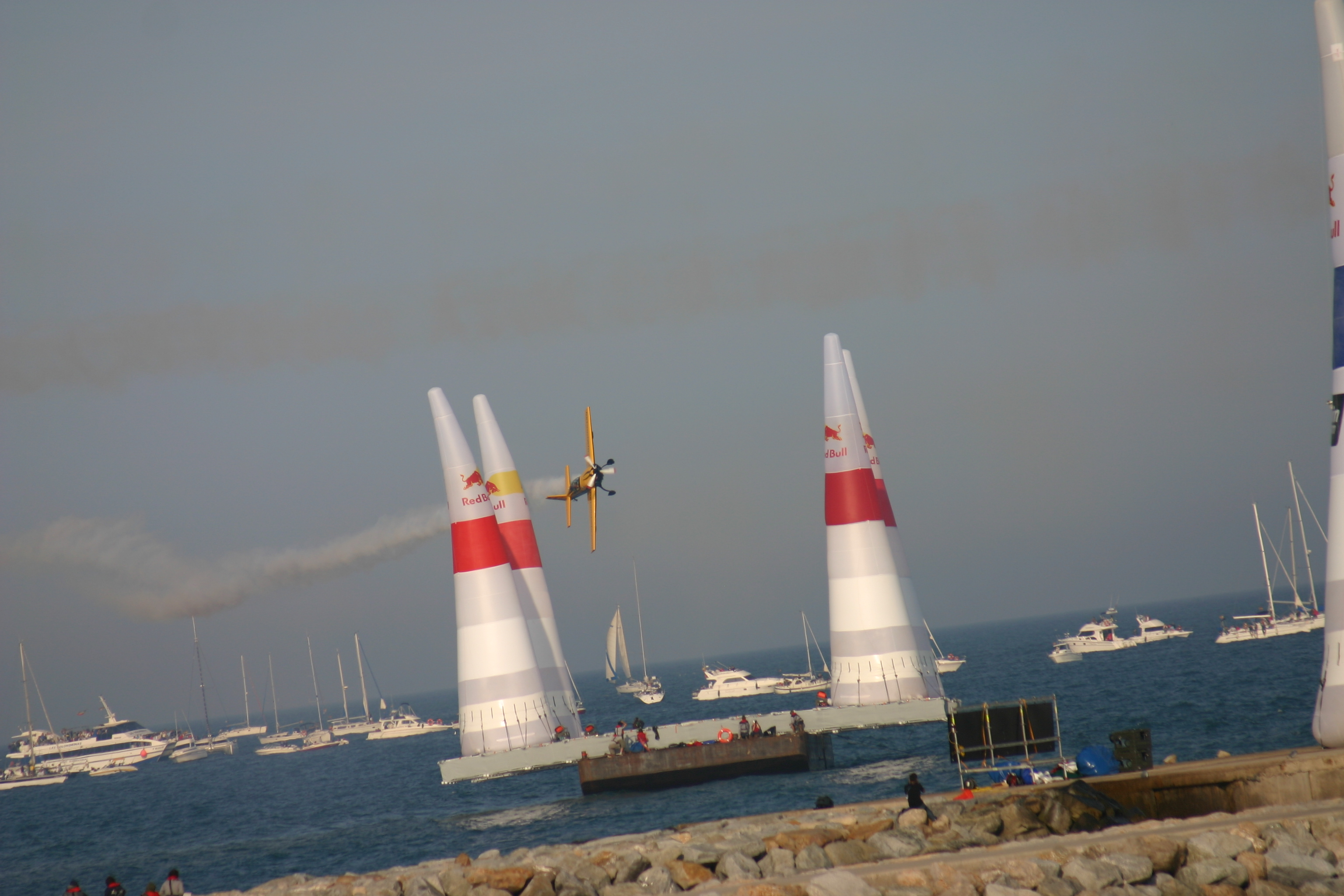 Red Bull Air Race, race City: Barcelona, Catalonia (Spain) Author: User:Yearofthedragon